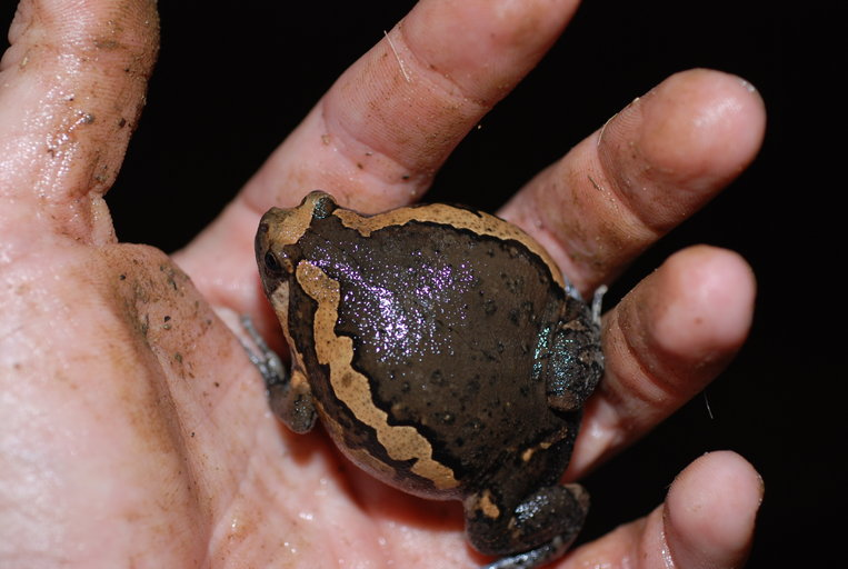 Kaloula pulchra